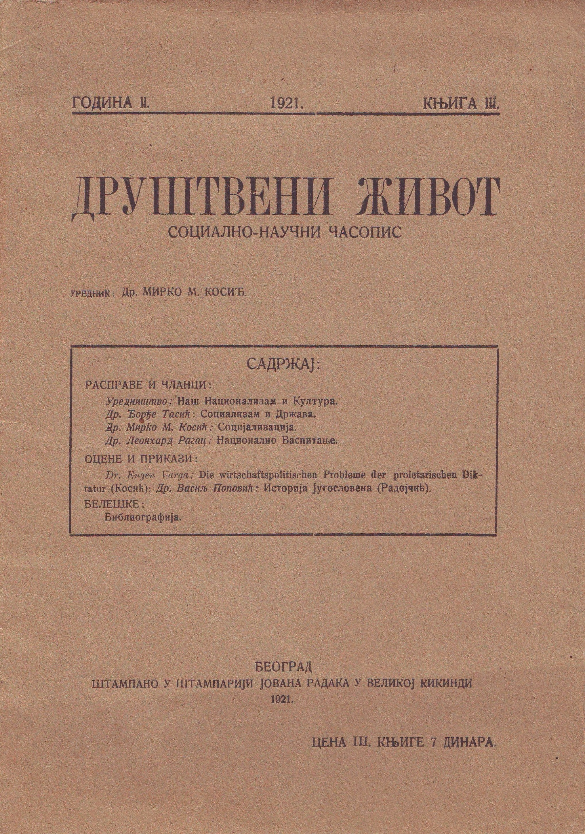 The third book of the sociological journal Društveni život for 1921. Srpski (latinica): Treća knjiga sociološkog časopisa Društveni život za 1921. godinu.